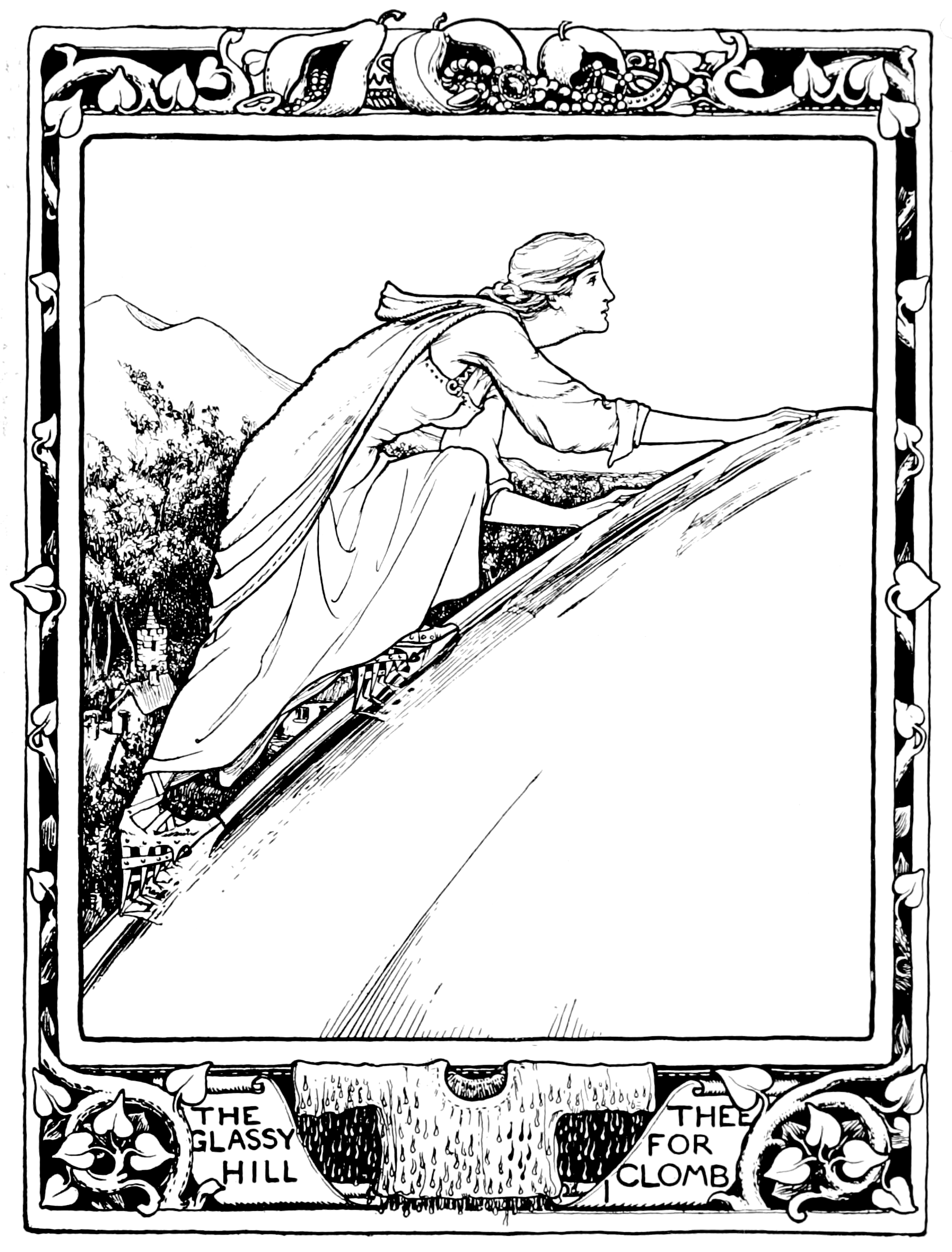 Scan illuatration on page of book in a series of fairy tales. A warning to children.